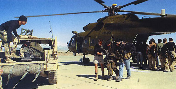 US Special Forces help Northern Alliance troops away from a CIA-operated MI-17 Hip helicopter at Bagram Airbase, Afghanistan, during Operation Anaconda, March 2002.